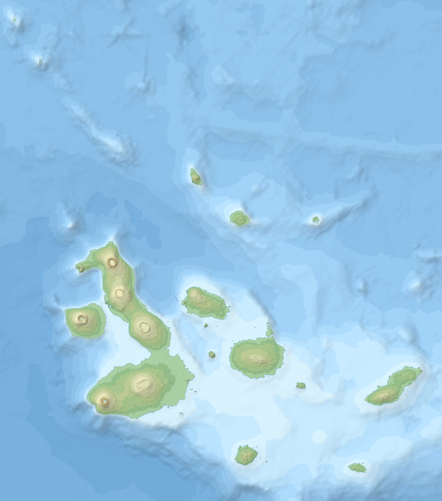 Topographic and bathymetric map of the Galápagos Islands, Ecuador.